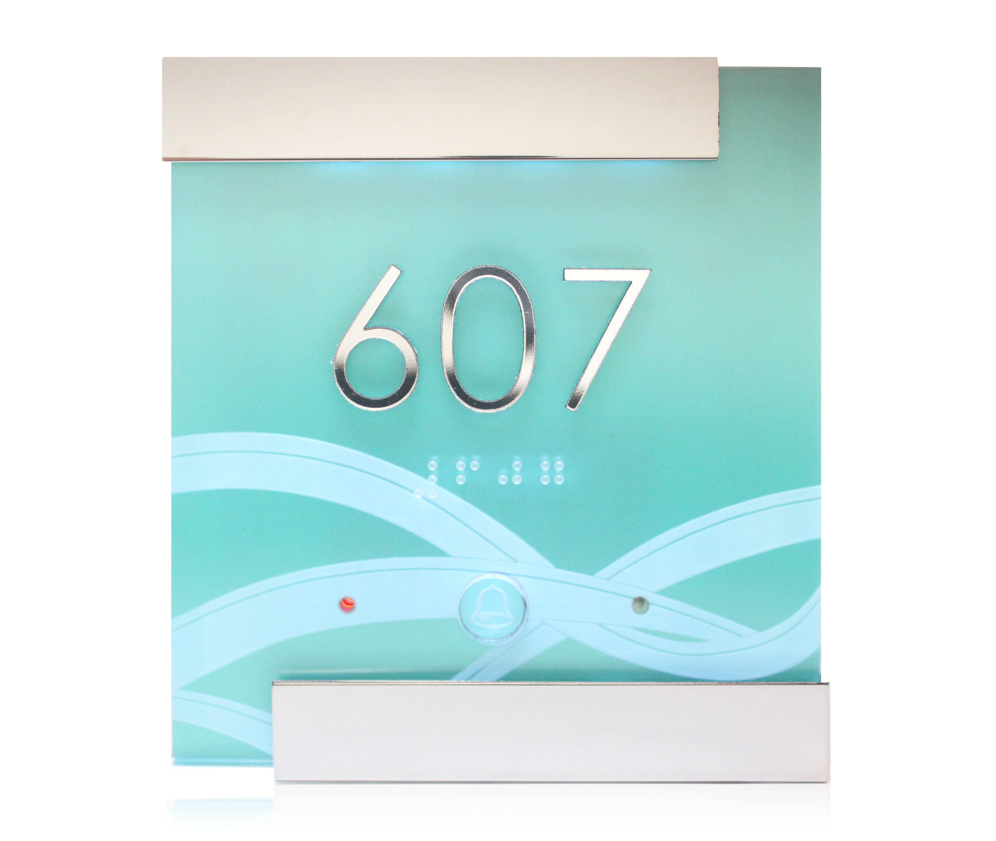 Electronic Do Not Disturb Sign showing Do Not Disturb status as seen at Loews Miami Beach Hotel. Custom fabricated by Axxess Industries.